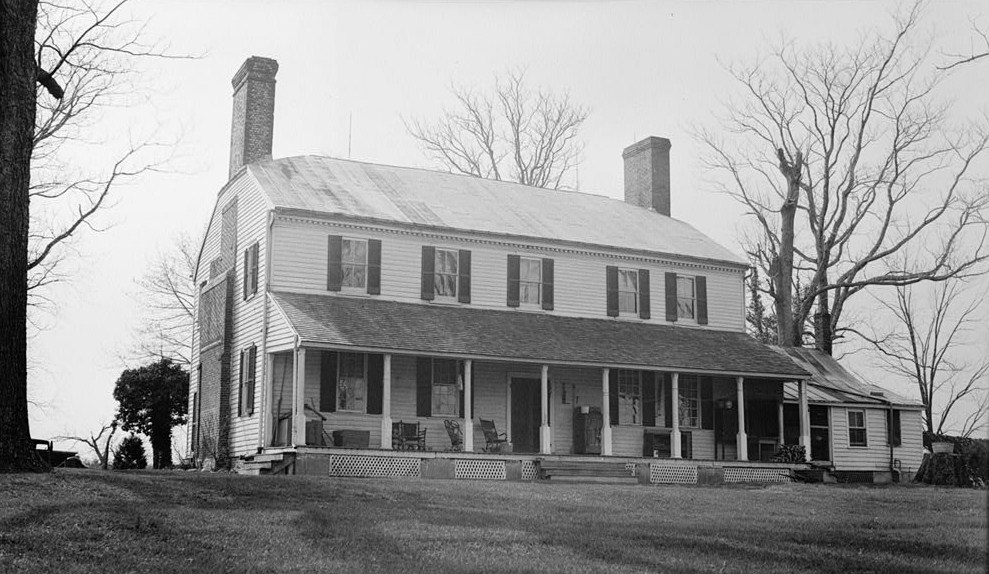 Marmion, State Route 649 vicinity, Comorn vicinity (King George County, Virginia) cropped This file comes from the Historic American Buildings Survey (HABS), Historic American Engineering Record (HAER) or Historic American Landscapes Survey (HALS). These are programs of the National Park Service established for the purpose of documenting historic places. Records consist of measured drawings, archival photographs, and written reports. When reusing please credit: Library of Congress, Prints & Photographs Division, VA,50-COMO.V,2-7 This tag does not indicate the copyright status of the attached work. A normal copyright tag is still required. See Commons:Licensing. This work is in the public domain in the United States because it is a work prepared by an officer or employee of the United States Government as part of that person’s official duties under the terms of Title 17, Chapter 1, Section 105 of the US Code. Note: This only applies to original works of the Federal Government and not to the work of any individual U.S. state, territory, commonwealth, county, municipality, or any other subdivision. This template also does not apply to postage stamp designs published by the United States Postal Service since 1978. (See § 313.6(C)(1) of Compendium of U.S. Copyright Office Practices). It also does not apply to certain US coins; see The US Mint Terms of Use. This file has been identified as being free of known restrictions under copyright law, including all related and neighboring rights.